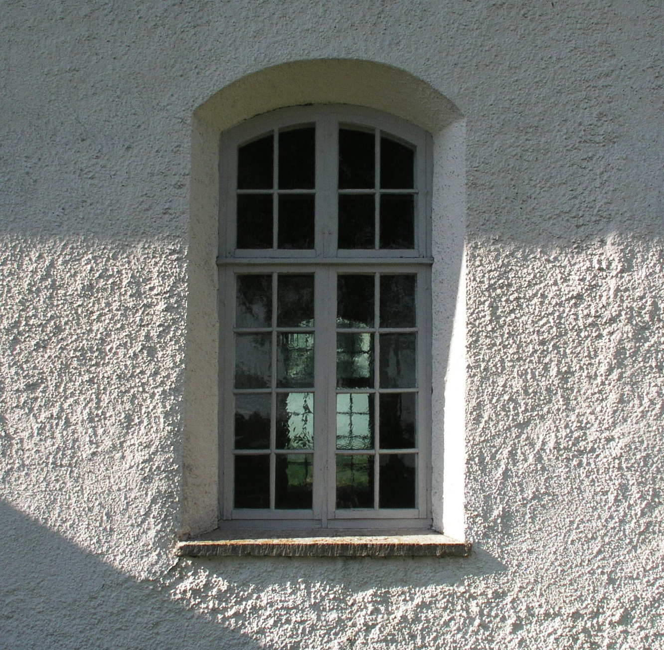 Ås kyrka Church window. This is a cropped version of Image:As_kyrka_ChurchWindow.jpg The photo was taken the 2nd of August 2005 by Håkan Svensson (Xauxa).